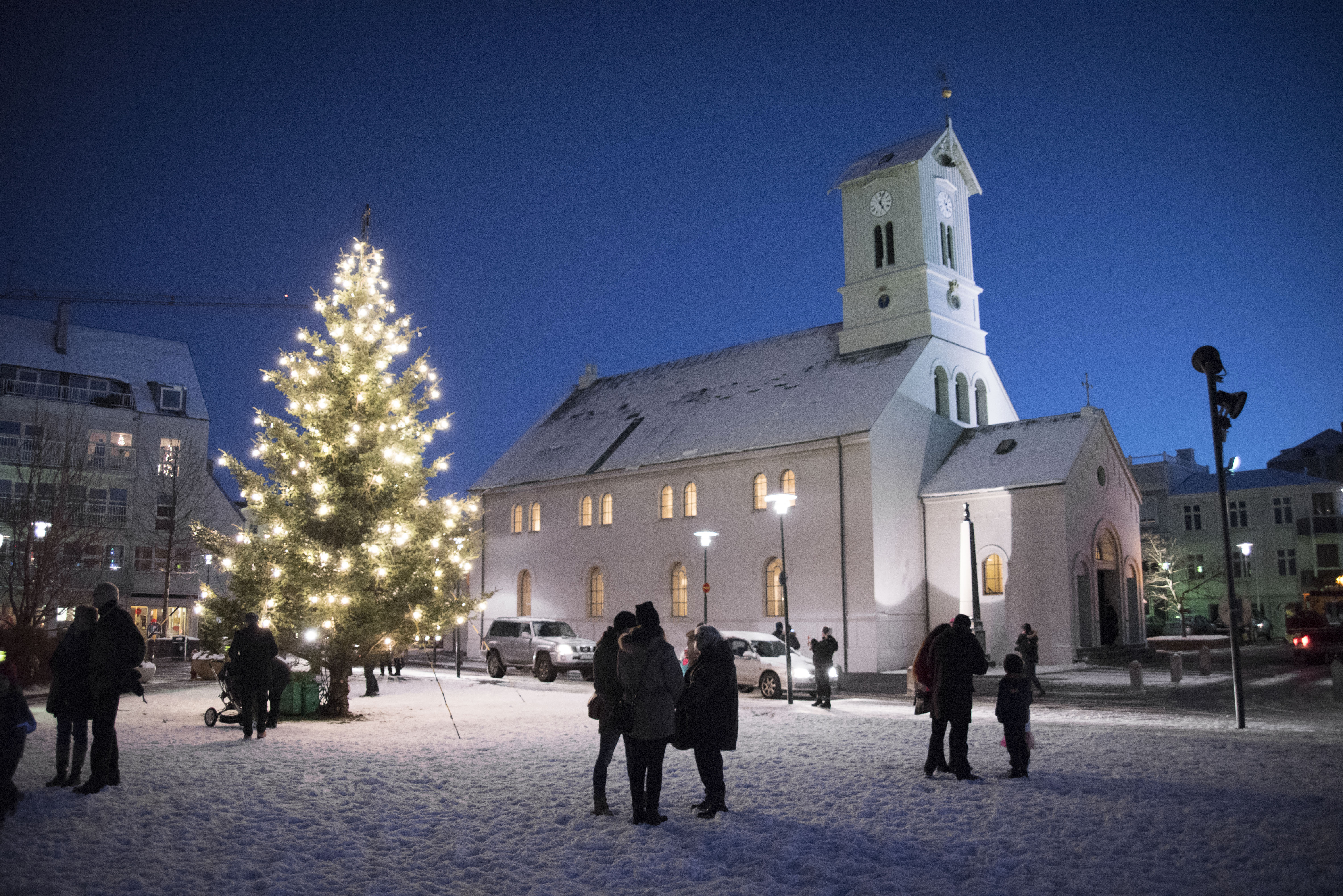 Iceland December 2014